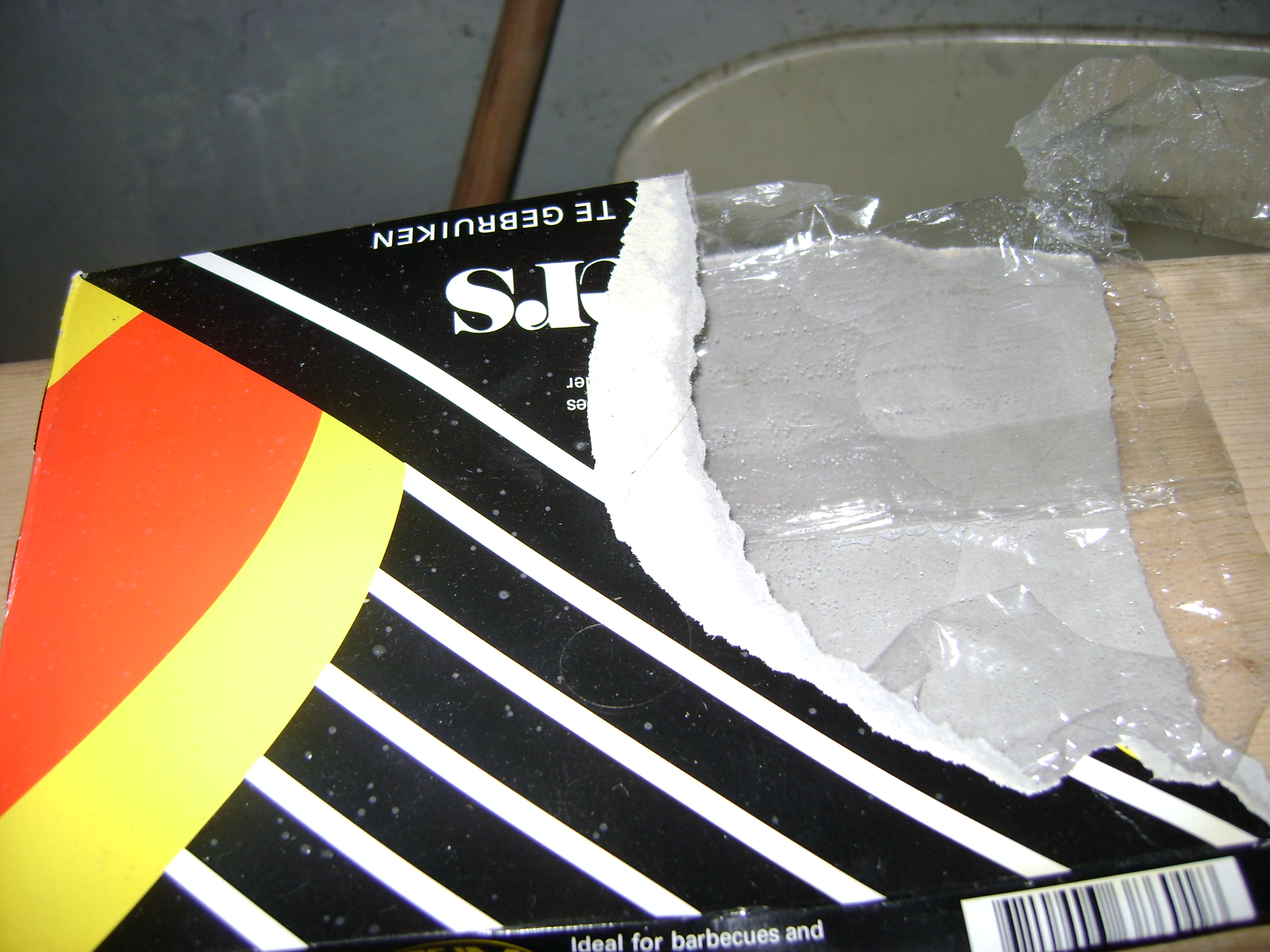 Hexamine fuel tablet in its packaging.